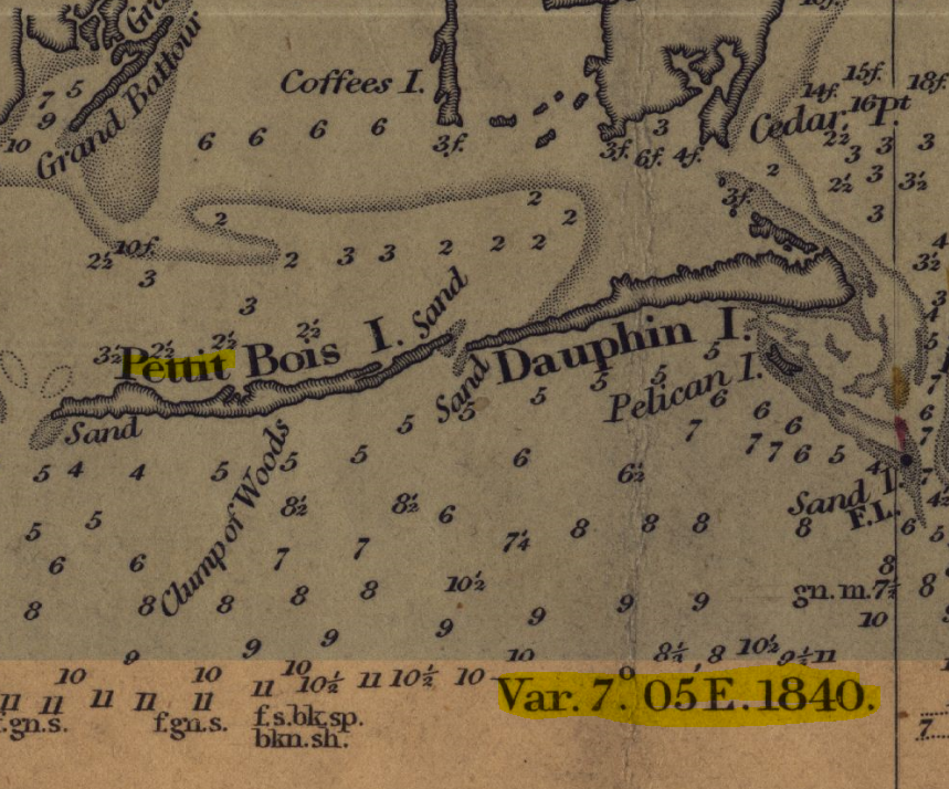 Pettit Bois Island - Map from 1840